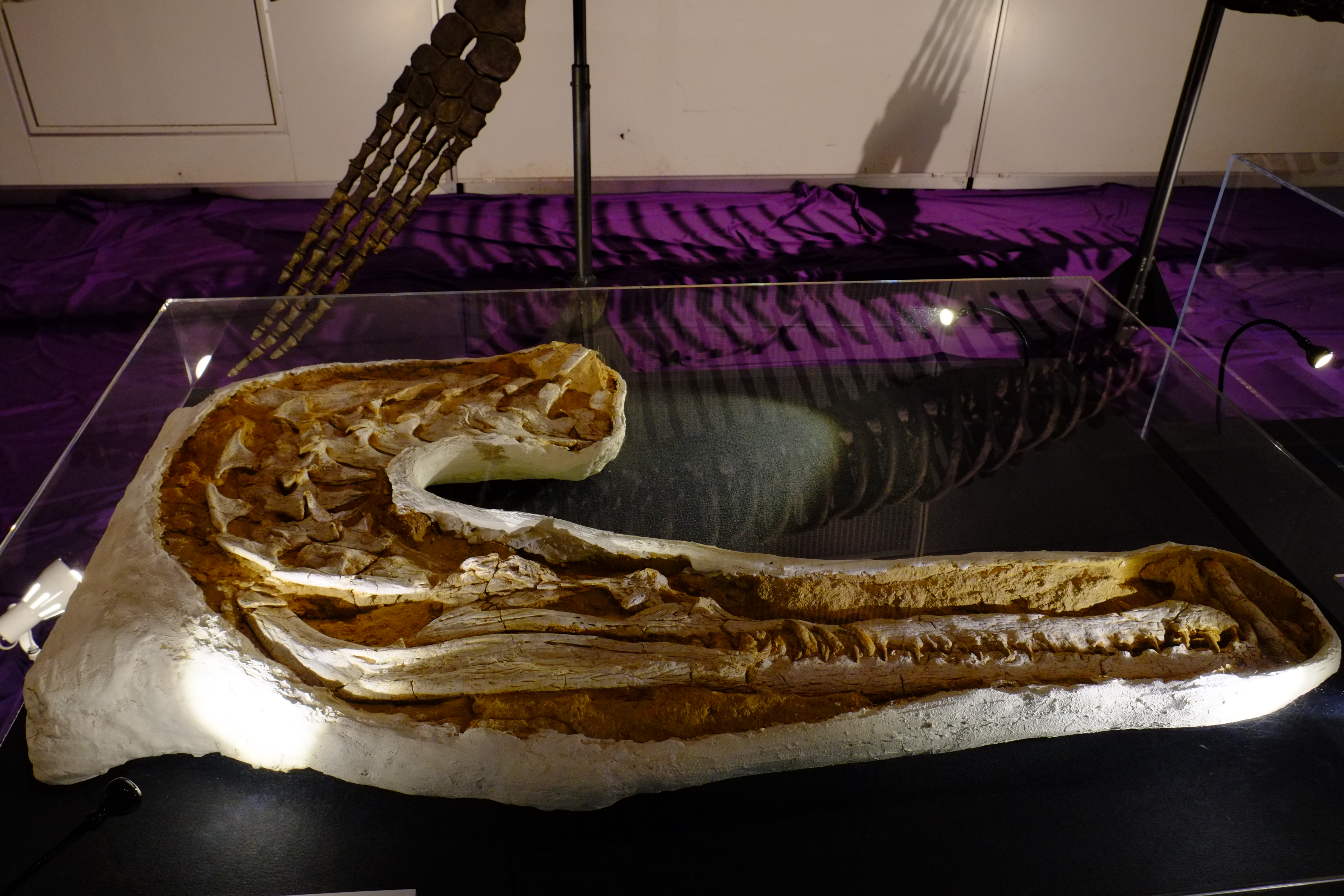 dyrosaurus maghribensis